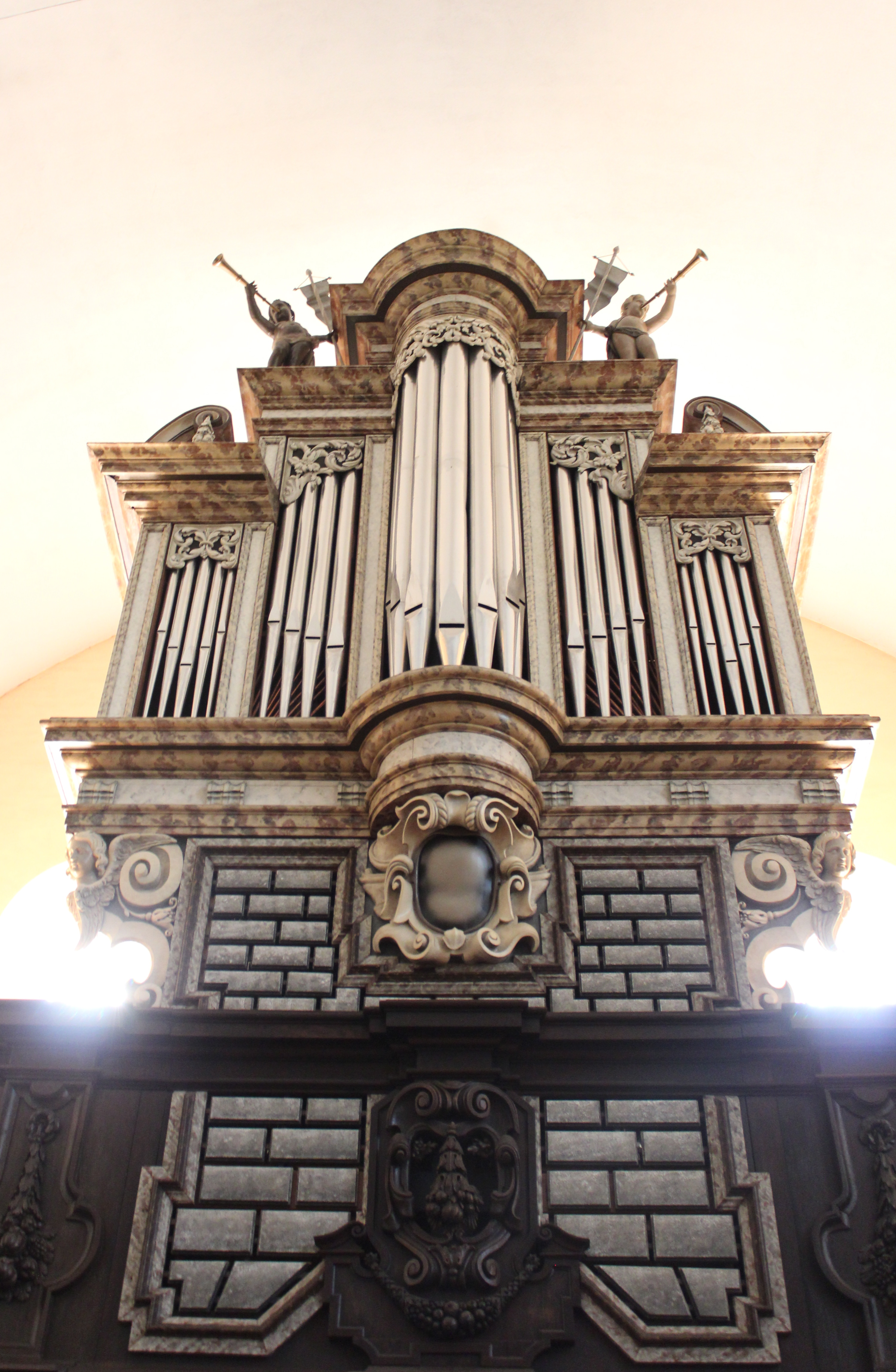 Eglise Saint-André Troisvierges, Luxembourg, pipe organ. Cultural heritage monument ("monument national")